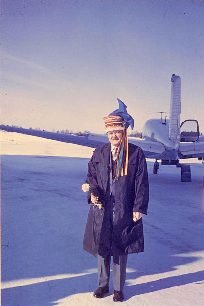 Photograph of the Finnish sociologist Erik Allardt (1925–), leaving for New Guinea.